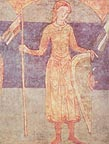 Konrad I.